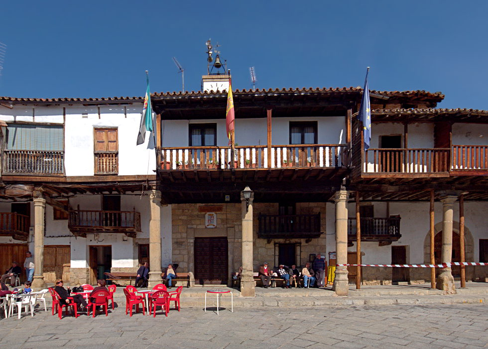 Casa Consitorial (town hall) of Valverde de la Vera